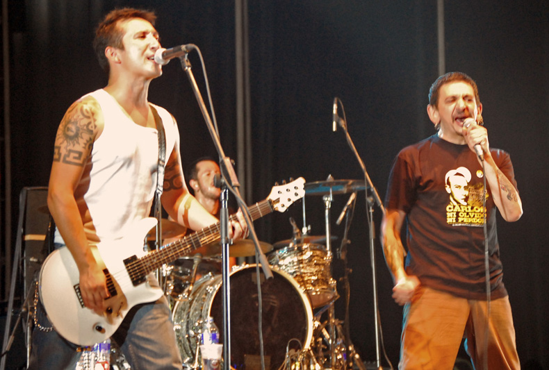 Gatillazo, Alcorcón (Madrid). 2009